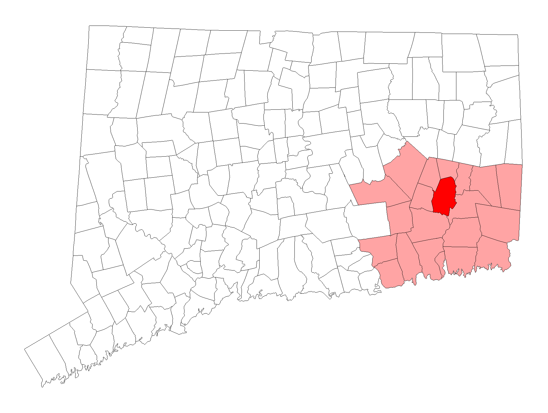 Norwich on the Map of Connecticut